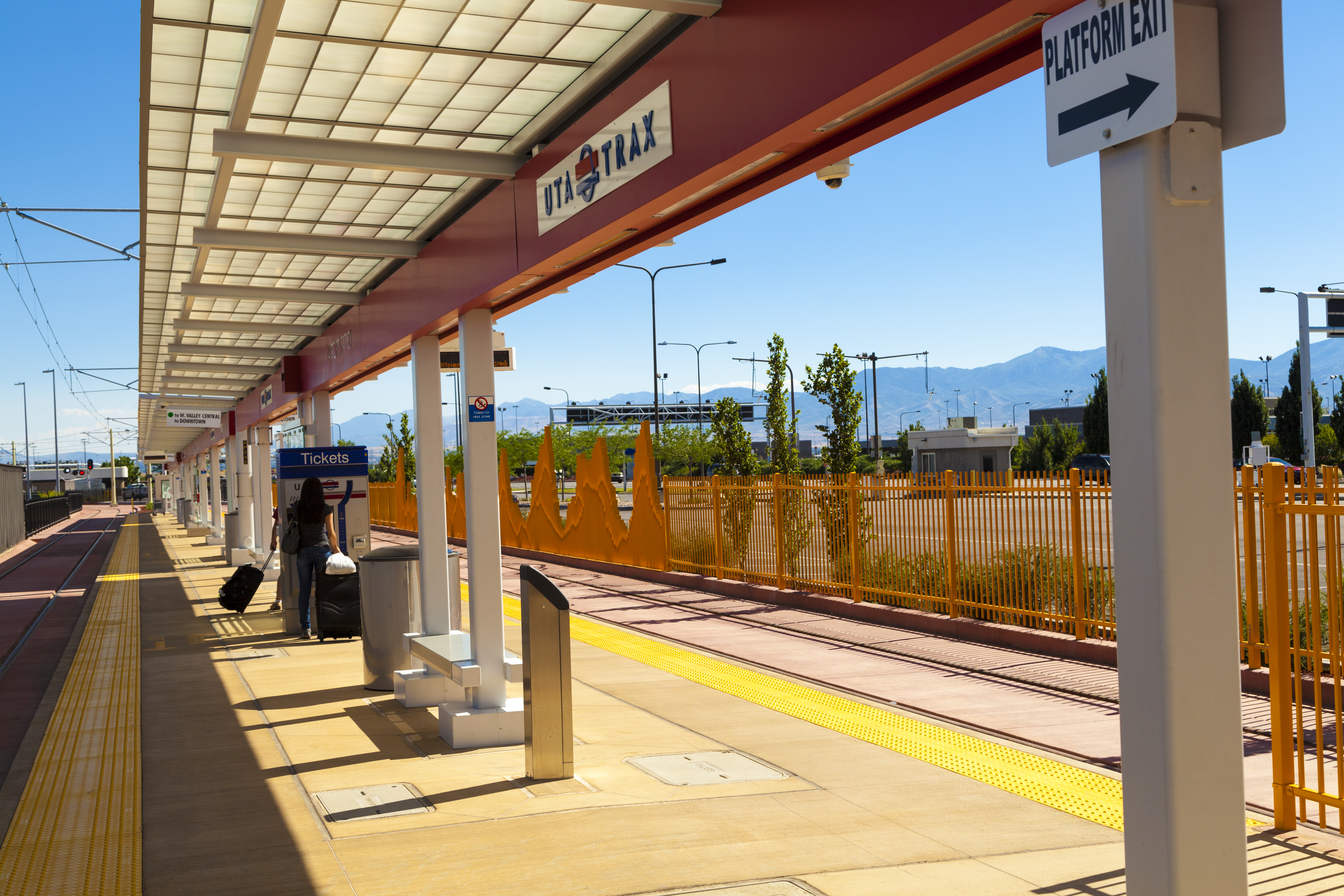 Utah Transit Authority UTA TRAX station at the Salt Lake City International Airport in Salt Lake City, Utah, USA.